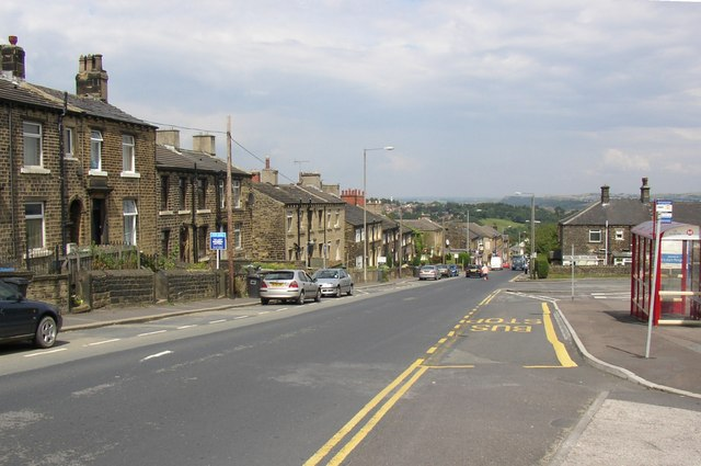 Blackmoorfoot Road, Crosland Moor, North Crosland, Lockwood On the right is the entrance to St Luke's Hospital, and the bus shelter is no doubt well-used.